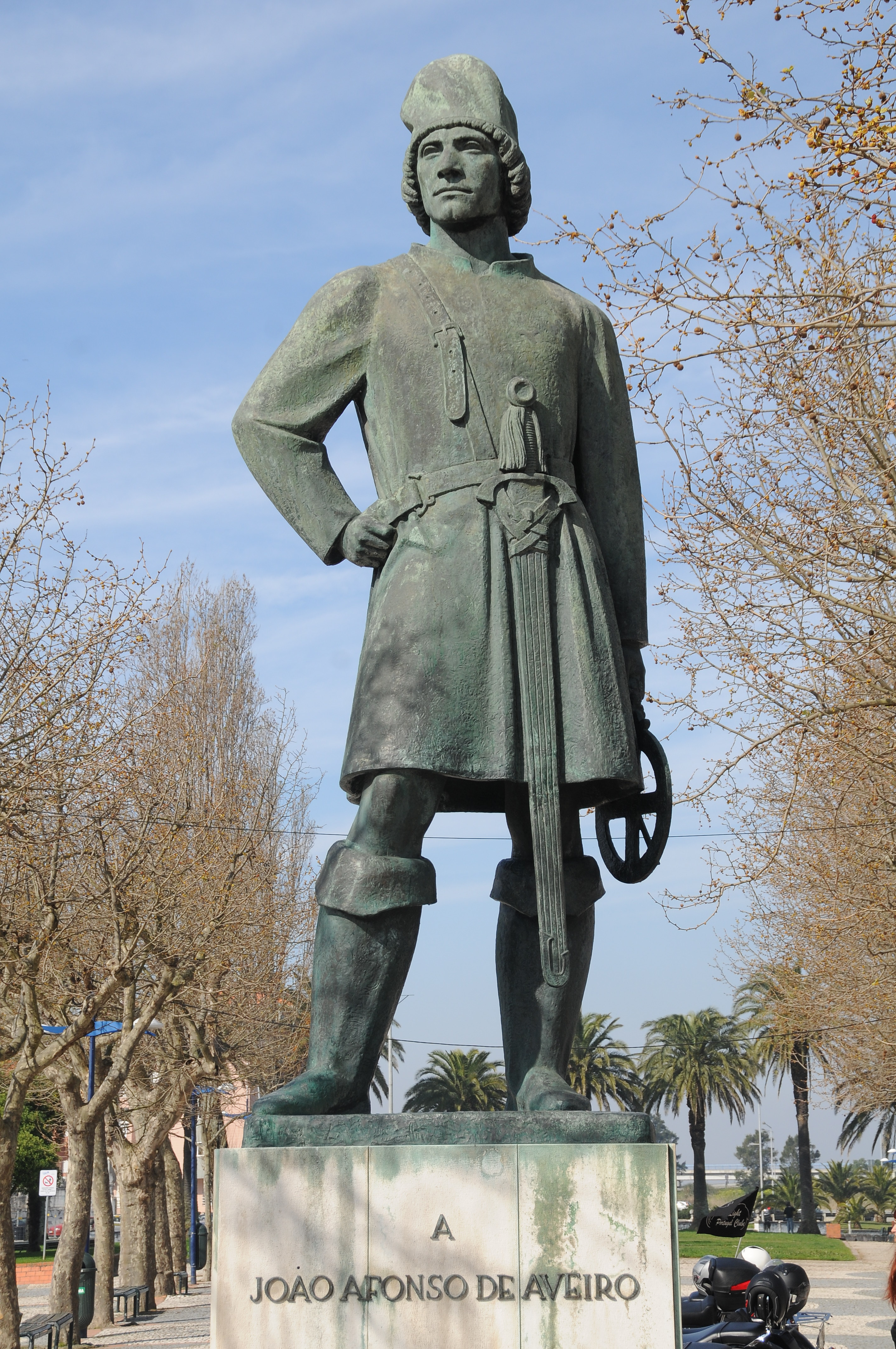 Statue in Aveiro, Portugal.